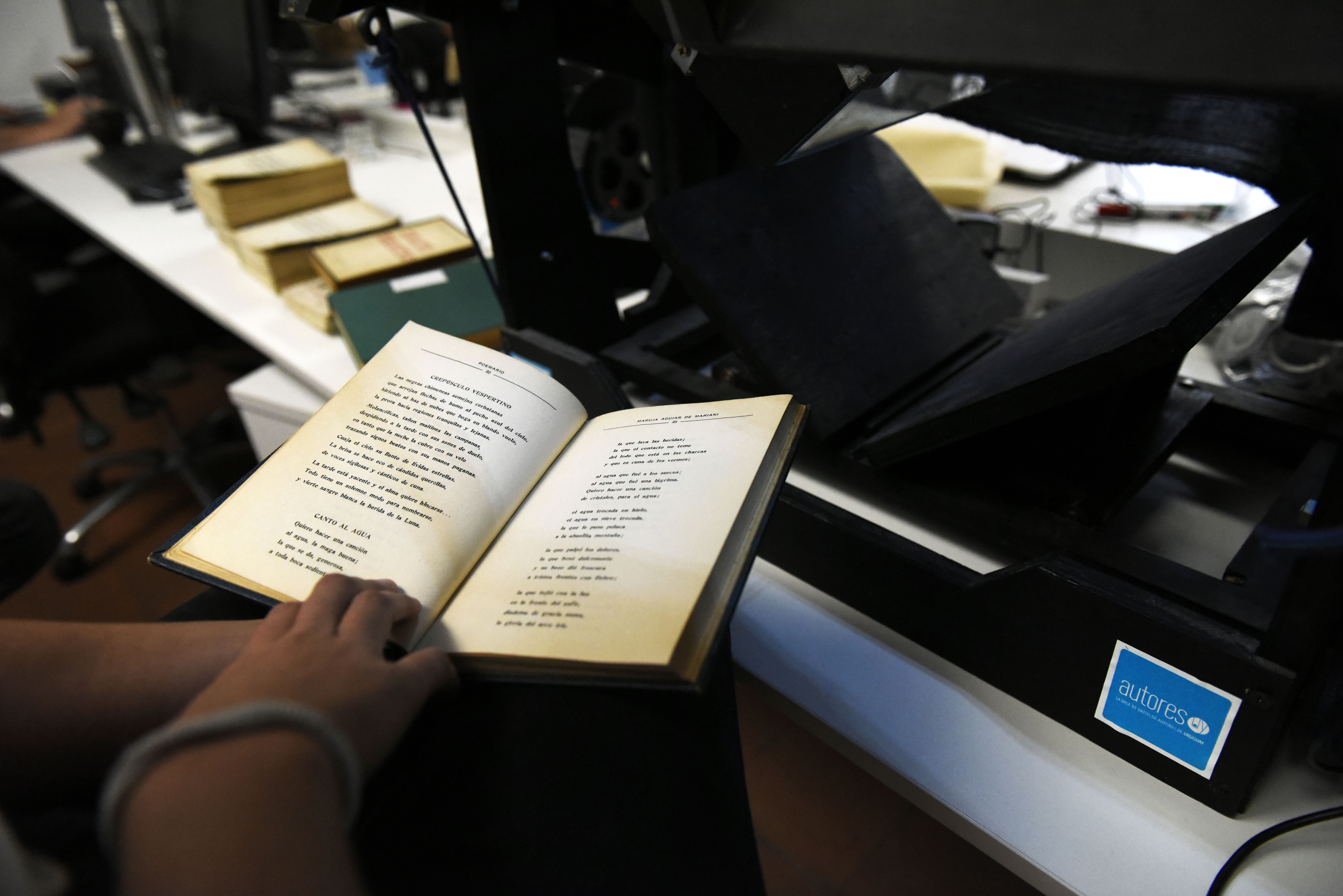 Editatona - Digitizing public domain works.